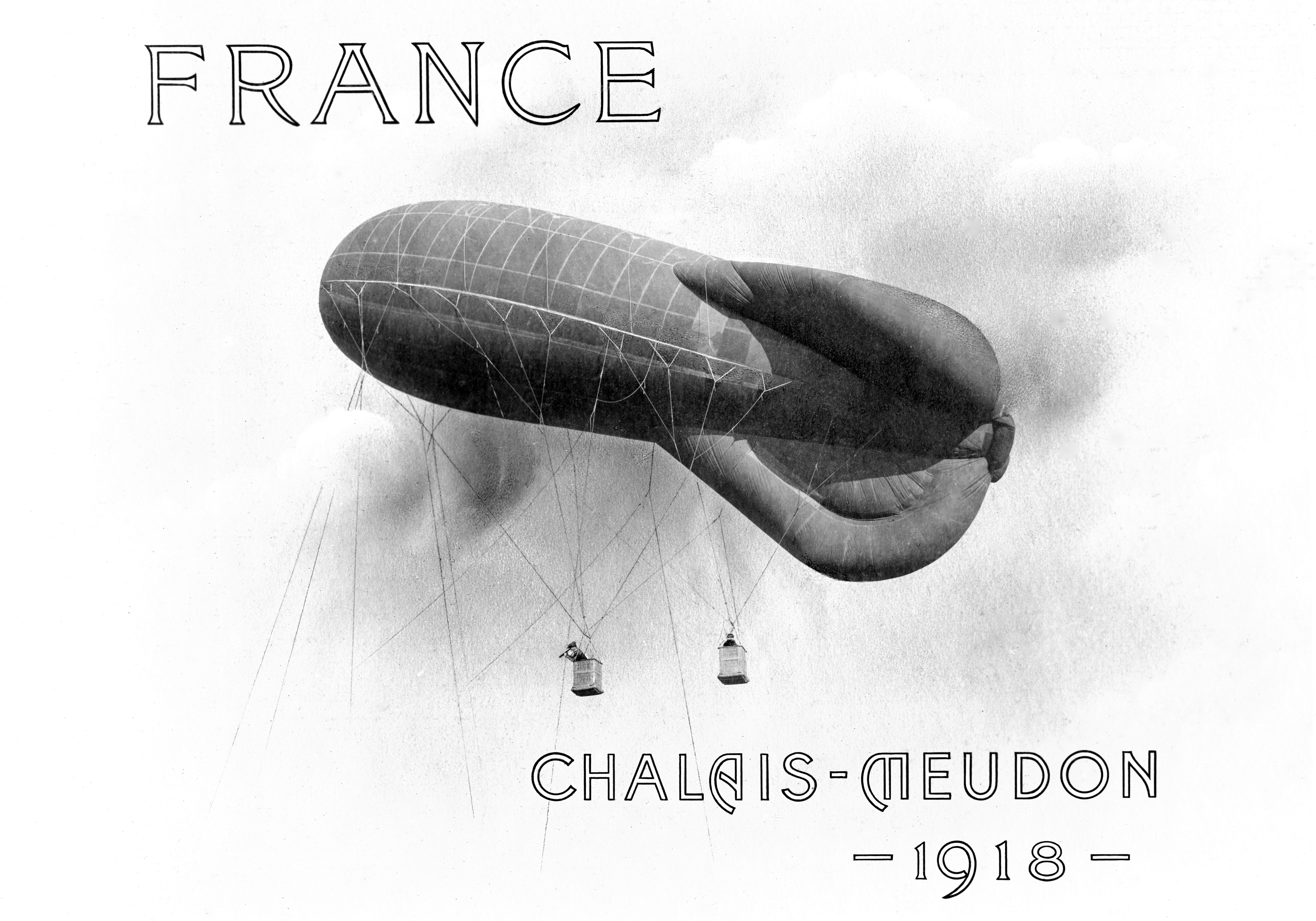 The US Navy Airship Camp Chalais - Meudon, France. 1918